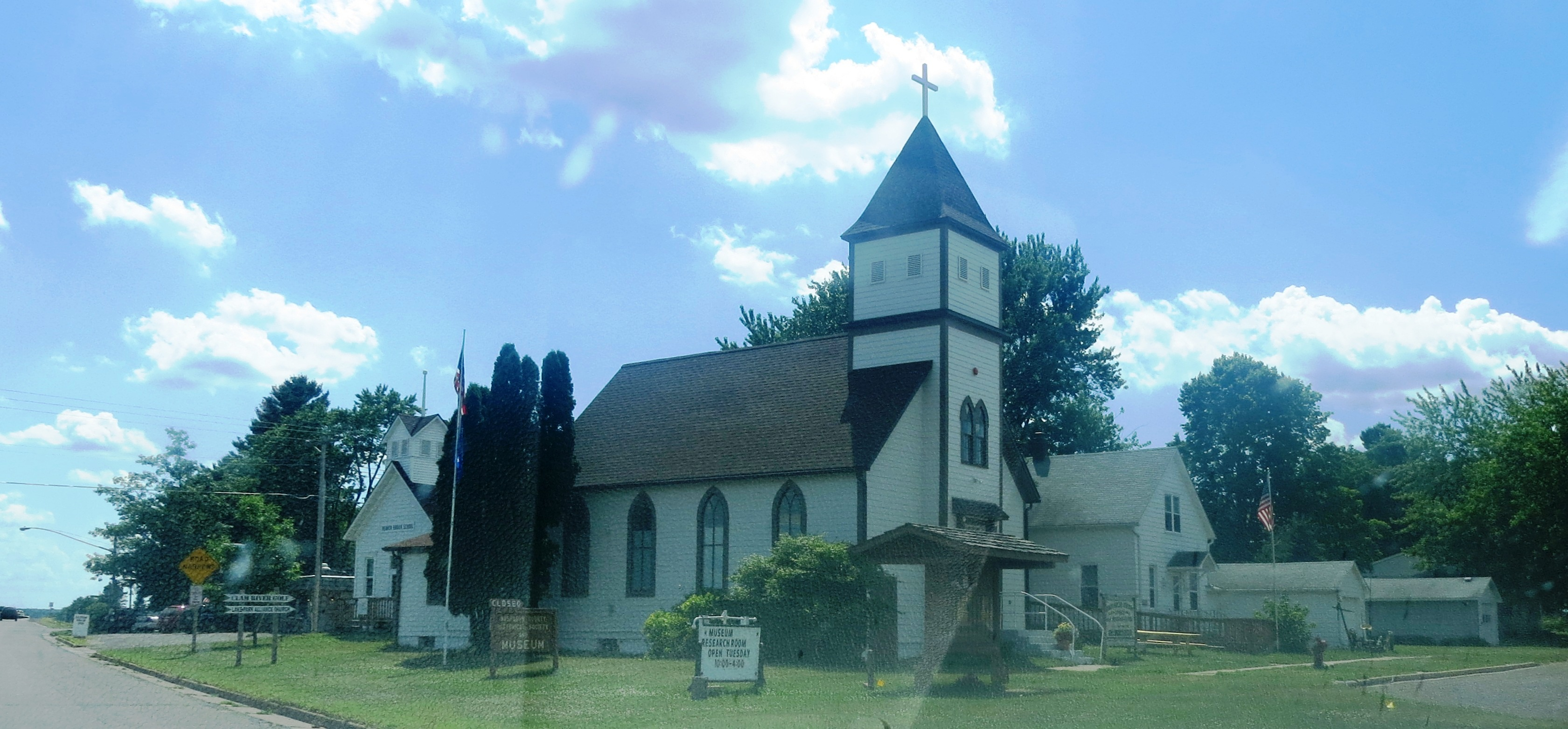 Image from Washburn county, Wisconsin (USA).